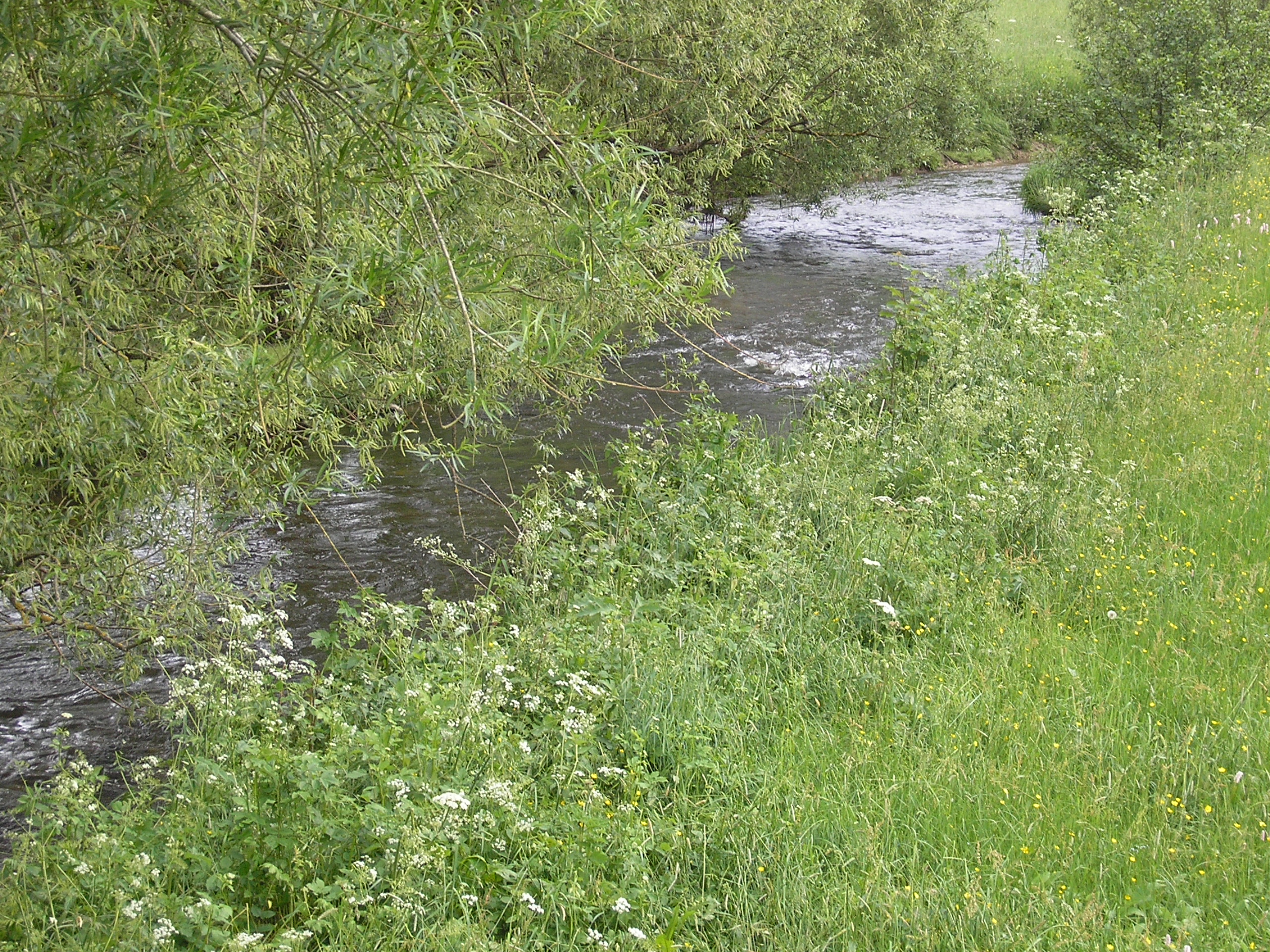 River Amel at Montenau, East Belgium